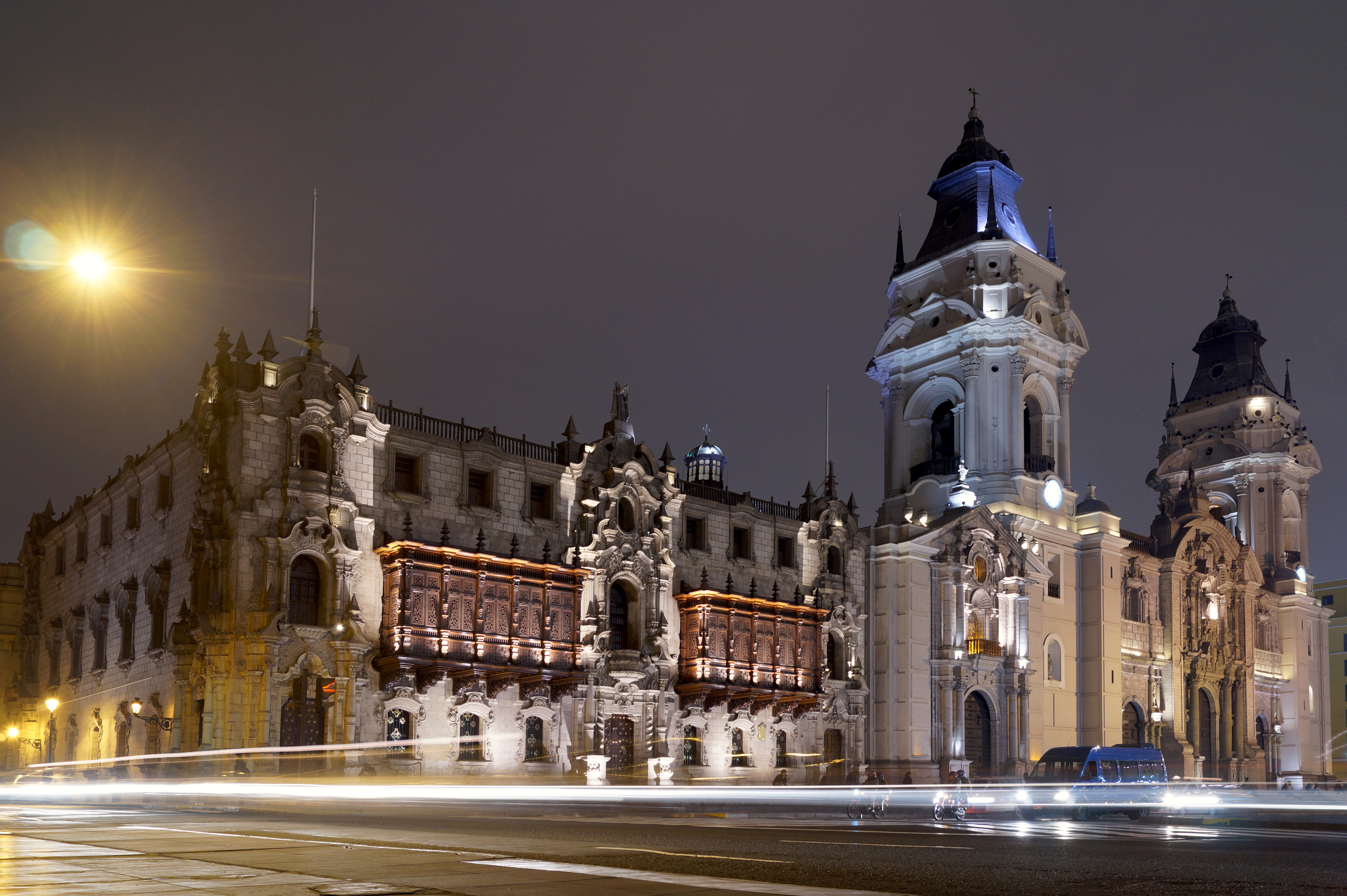 Catedral de Lima in 2015